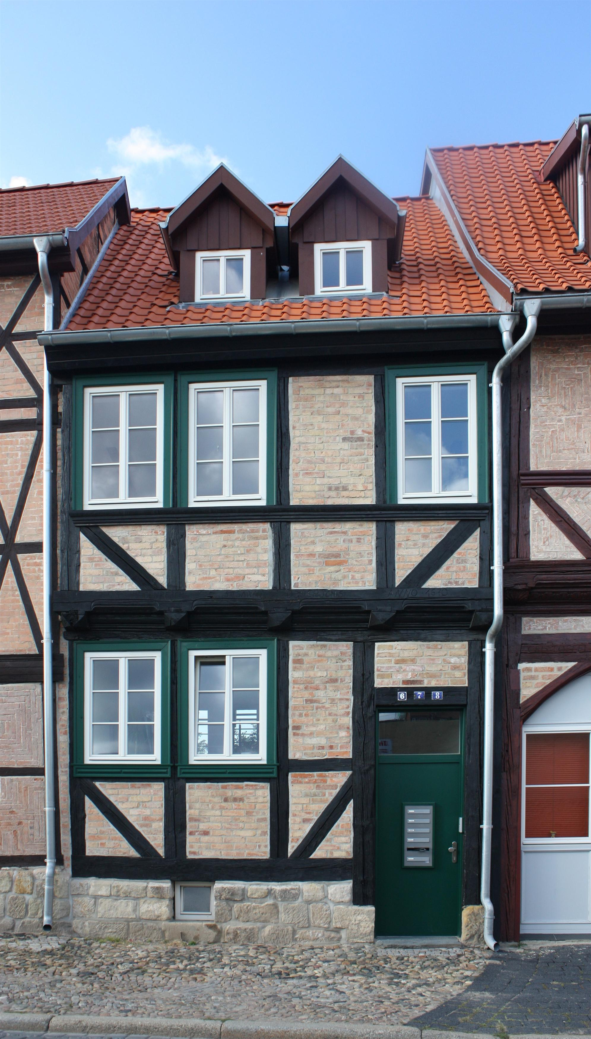 This is a photograph of an architectural monument.It is on the list of cultural monuments of Quedlinburg Augustinern 7 in Quedlinburg